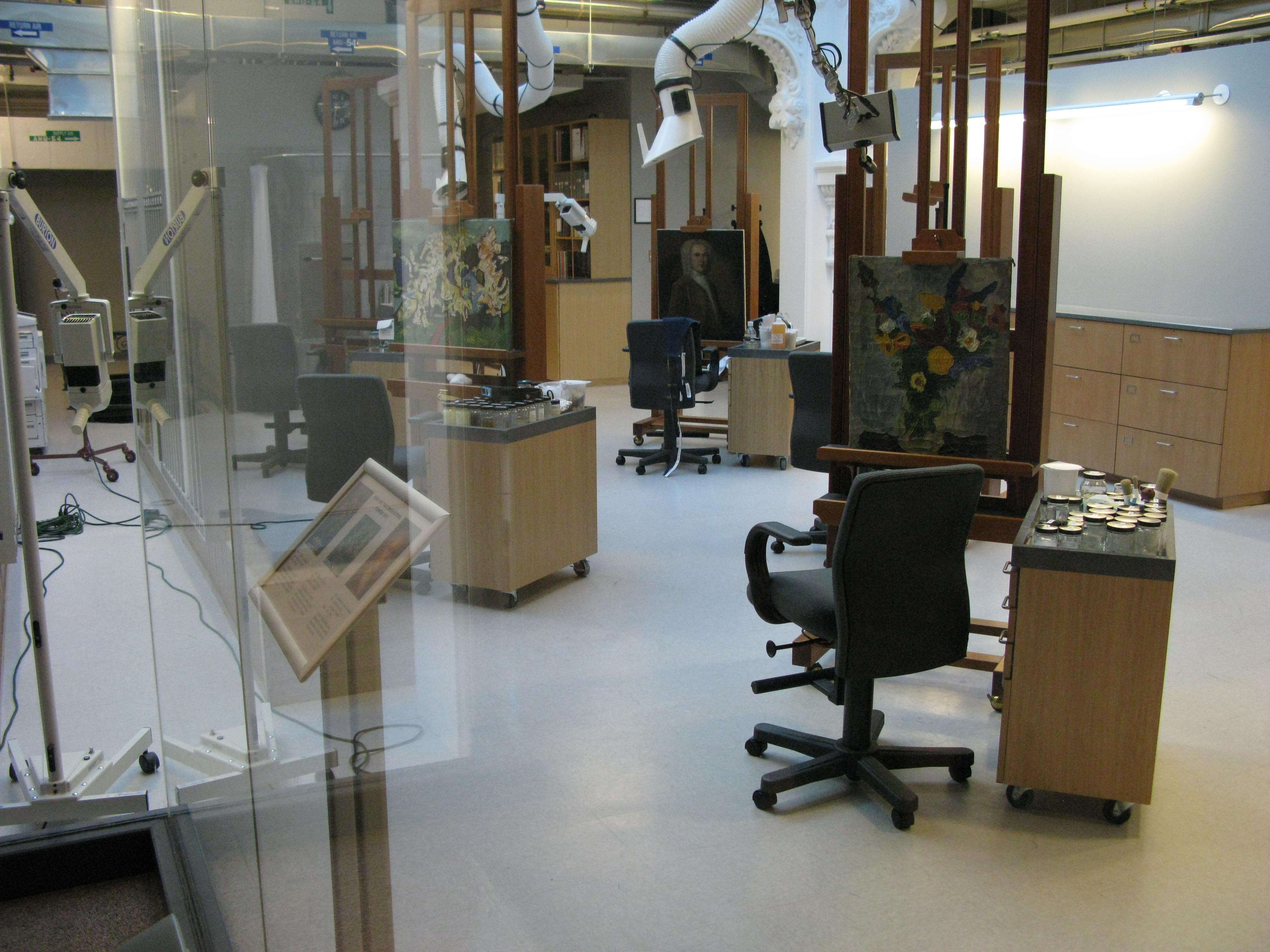 The Lunder Conservation Center is the first art conservation facility that allows the public permanent behind-the-scenes views of essential preservation work. Conservation staff for both the Smithsonian American Art Museum and the National Portrait Gallery are visible to the public through floor-to-ceiling glass walls that allow visitors to see firsthand all the techniques that conservators use to examine, treat and preserve artworks. The center has five state-of-the-art laboratories and studios equipped to treat paintings, prints, drawings, photographs, sculptures, folk art objects, contemporary crafts, decorative arts and frames.